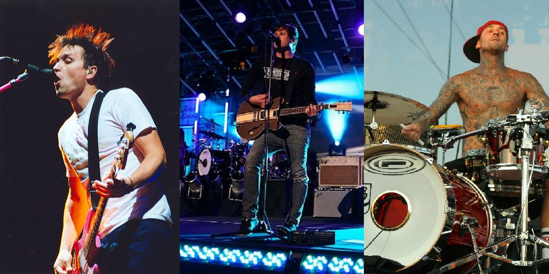 Picture of Mark, Tom and Travis from various shows.